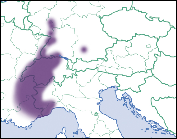 Cepaea sylvatica (Draparnaud, 1801). Distributional range in Europe, scientific state of knowledge of 2012. Source description in English. Light colour indicated rare occurrences or regions where the species could eventually be expected to occur. Dark colour indicated relatively reliable occurrences, as well as regions where the species was expected to occur, and where the species was not known to be extremely rare. Dark colour indications were not necessarily based on published records. Species summary in AnimalBase